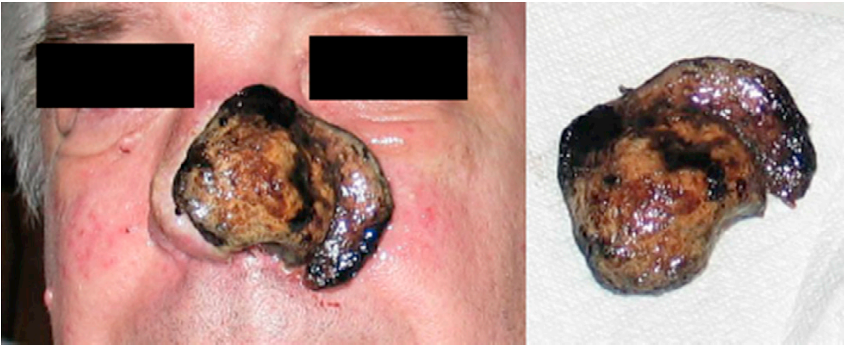 Necrosis of left naris and surrounding tissue caused by use of corrosive black salve ointment for suspected melanoma.